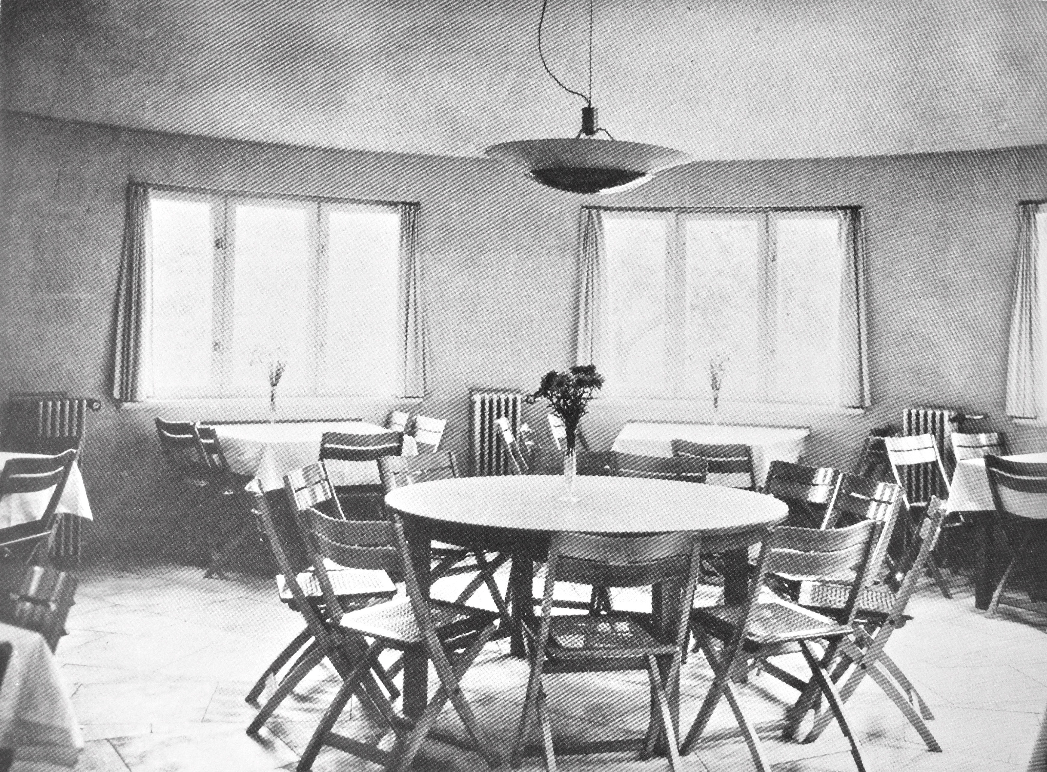 The dining room for students and teachers of Musikheim in Frankfurt an der Oder, Germany, planned by architect Otto Bartning (1878–1959) and performed by furniture designer Erich Dieckmann (1896–1944)